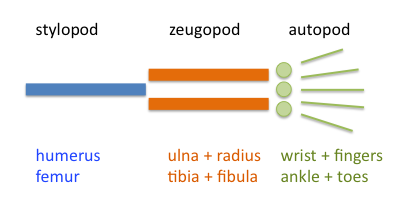 Vertebrate limbs are typically subdivided in 3 parts: the stylopod, the zygopod, and the autopod.